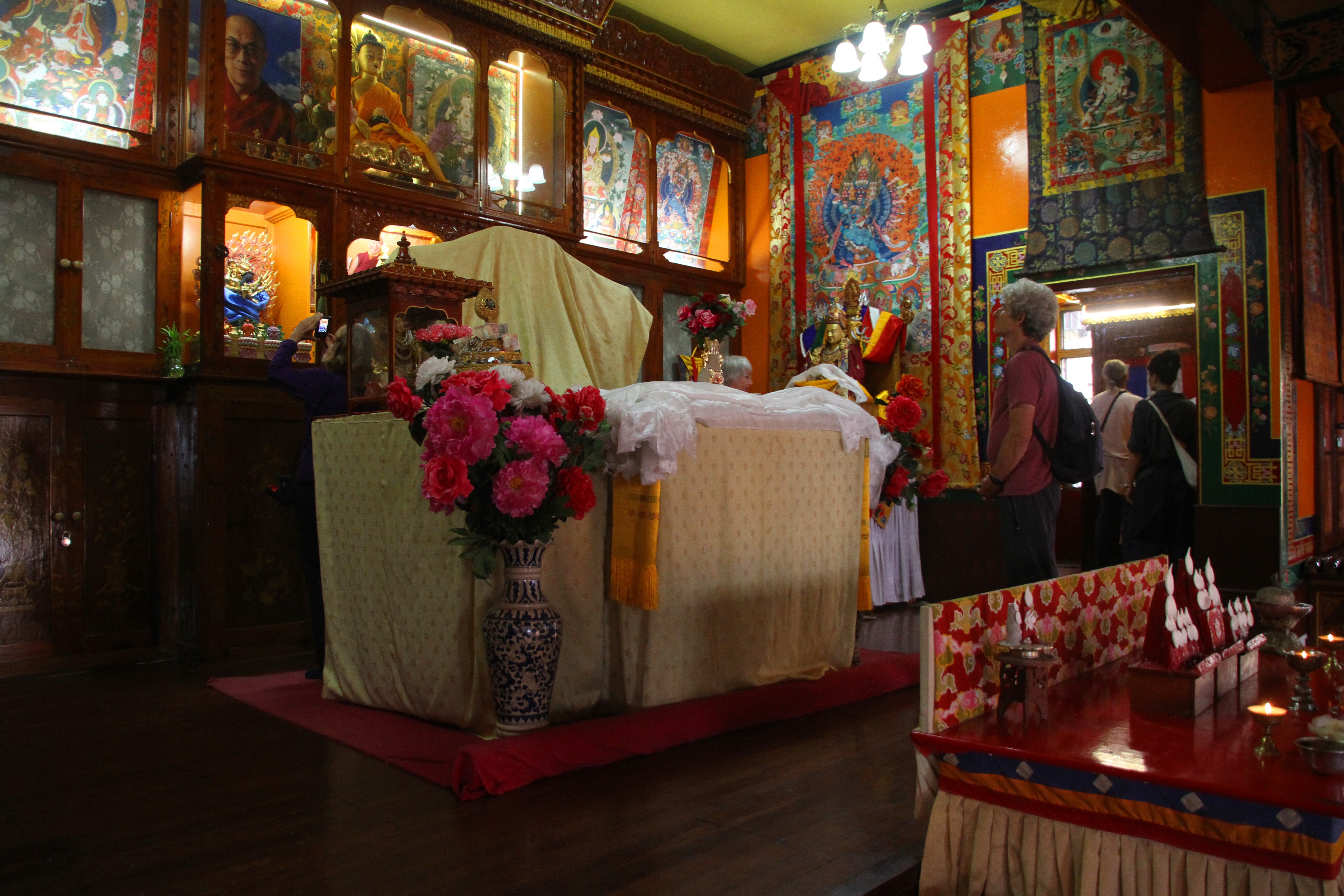 Nechung temple of the state oracle in Dharamsala, Himachal Pradesh, India.